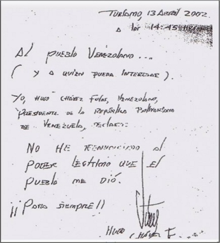 Carta de Hugo Chávez desconociendo su renuncia.